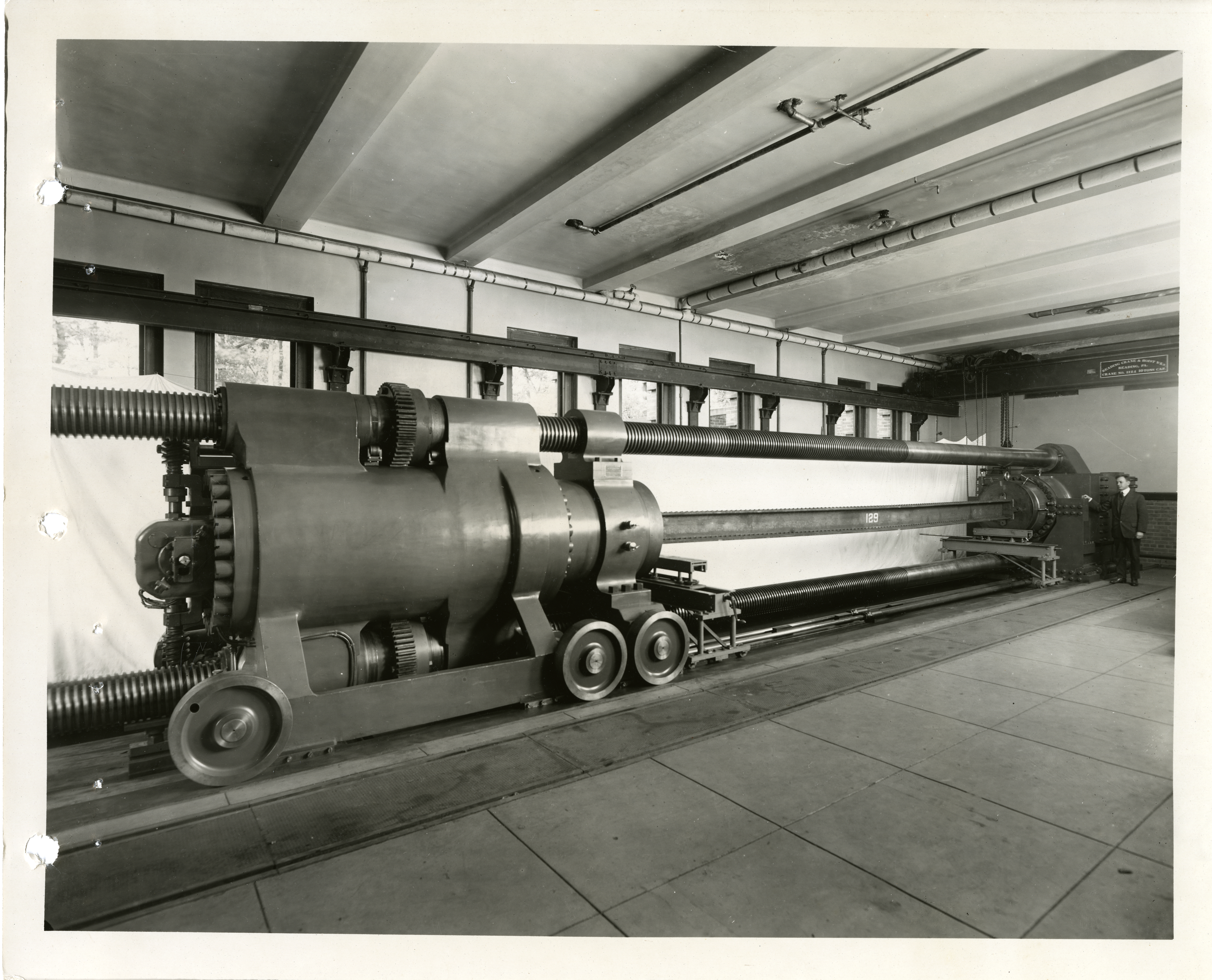 The Emery Testing Machine had a capacity of 2,300,000 pounds in compression and 1,150,000 pounds in tension, and could accomodate specimens up to 30 feet in length. The advantages of the horizontal testing machine were that it simplified the application of side loads in column testing, made examination of specimens easier, and offset the need for high bay areas. An unusal feature of the machine was its high sensitivity. It could detect and read out deformation due to compression or tension within 20 pounds.